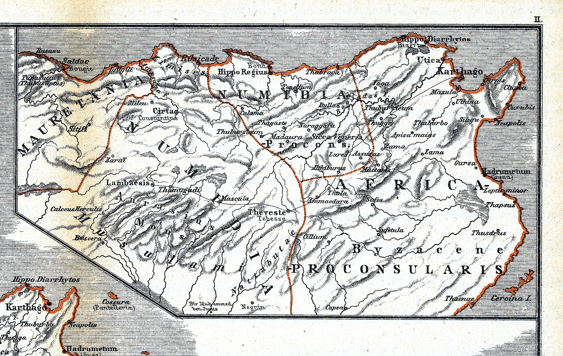 maps of roman provinces, from the book "Römische Provinzen", part V, by Theodor Mommsen; cutout from File:Karte aus dem Buch Römische Provinzen von Theodor Mommsen 1921 09.jpg